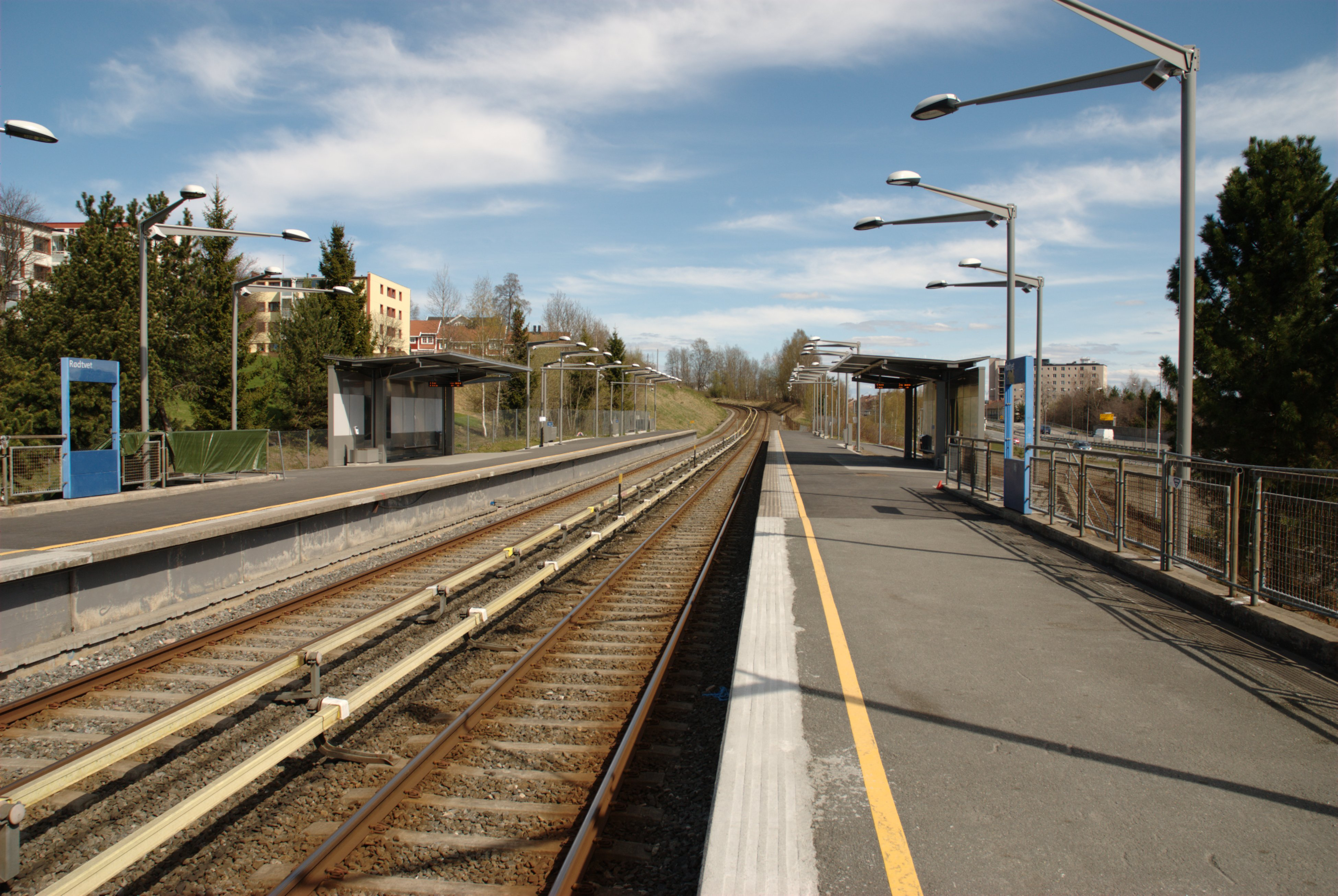 Rødtvet is a station on Grorudbanen (line 5) of the Oslo T-bane system.